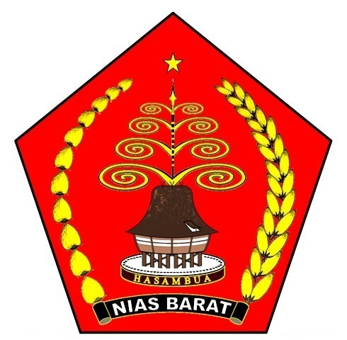 Coat of arms of West Nias Regency, North Sumatra